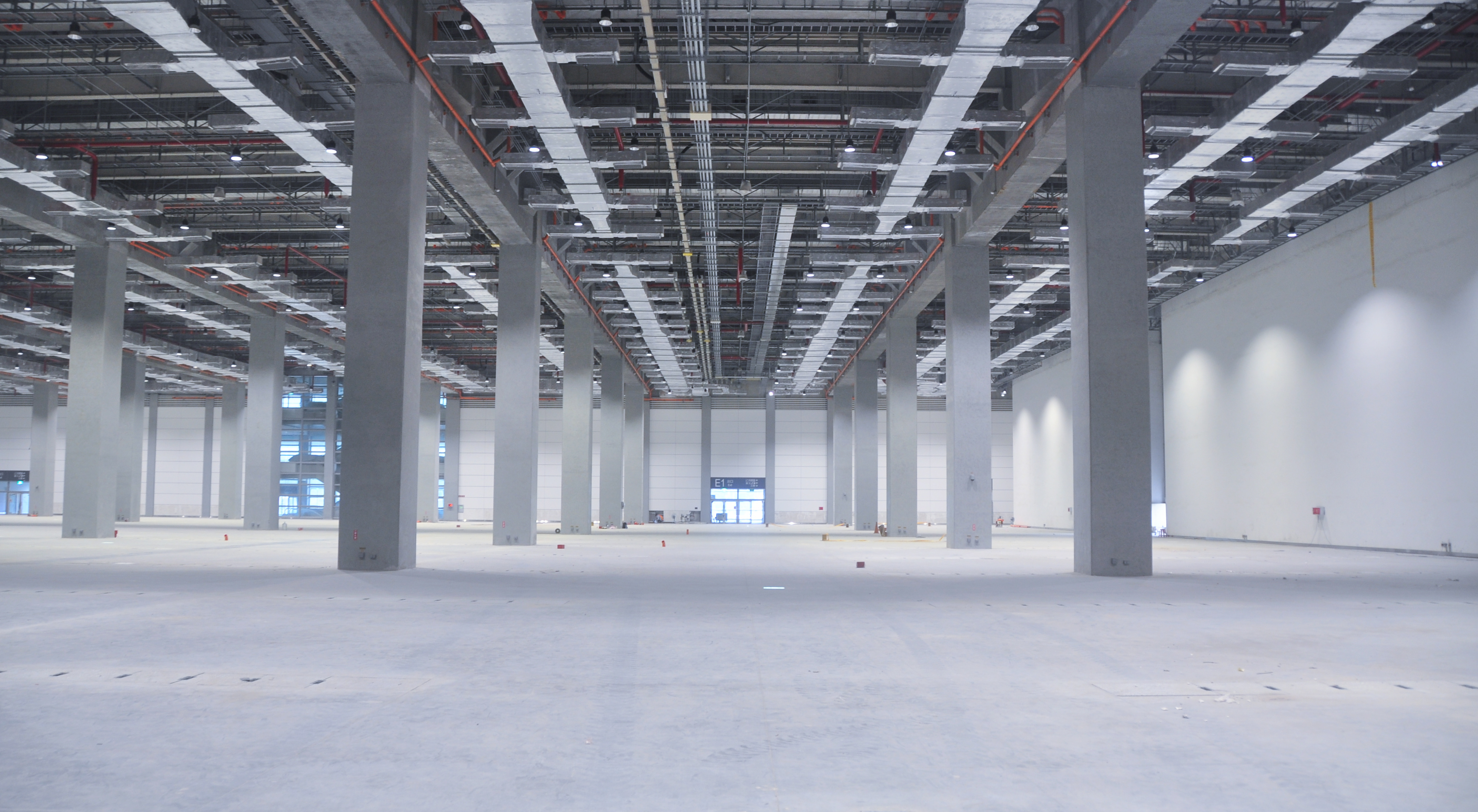 TNEC 2 - first floor